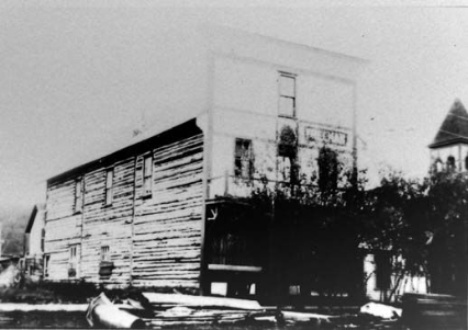 Previously known as the Binet Block when construction was completed in late 1898, the building was purchased in 1909 by Henry Freeman. In 1913 it was renamed the Freeman Hotel, by which name it was known for some time. A subsequent owner renamed it Yukon Hotel, by which name it is still known. In the upper right corner of the building is a sign with the word "Freeman". The building in the background at the far right is St. Paul's Anglican Church.